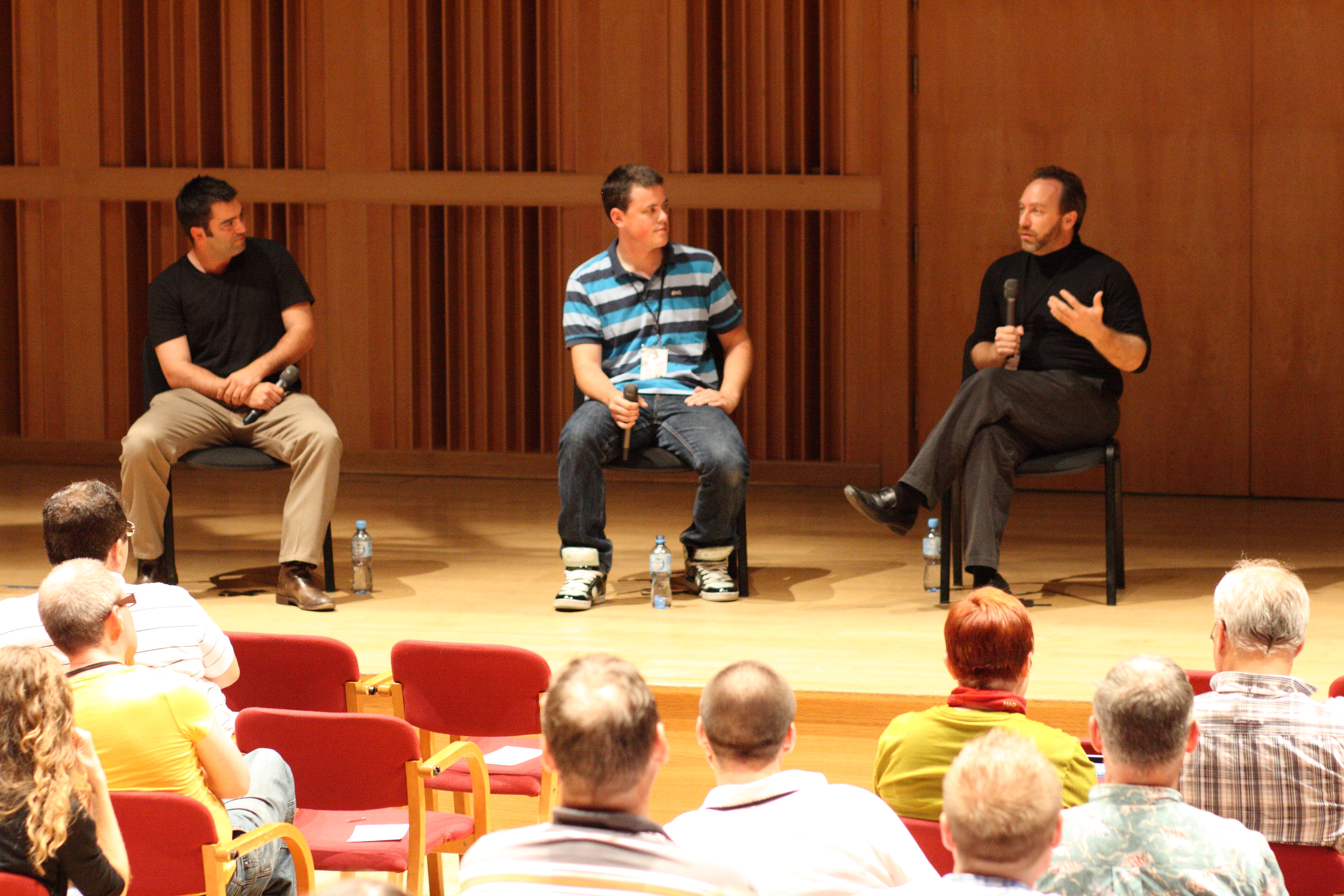 Talks withs Jimmy Wales (right) and the two directors of Truth in Numbers, Scott Glosserman (far left) and Nic Hill (center) after the screaning of the documentary during Wikimania 2010 in Gdansk